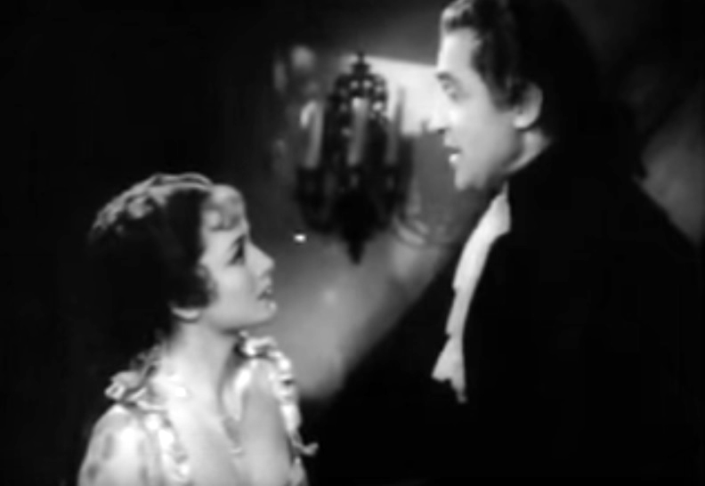 Olivia de Havilland in The Great Garrick official trailer, 1937